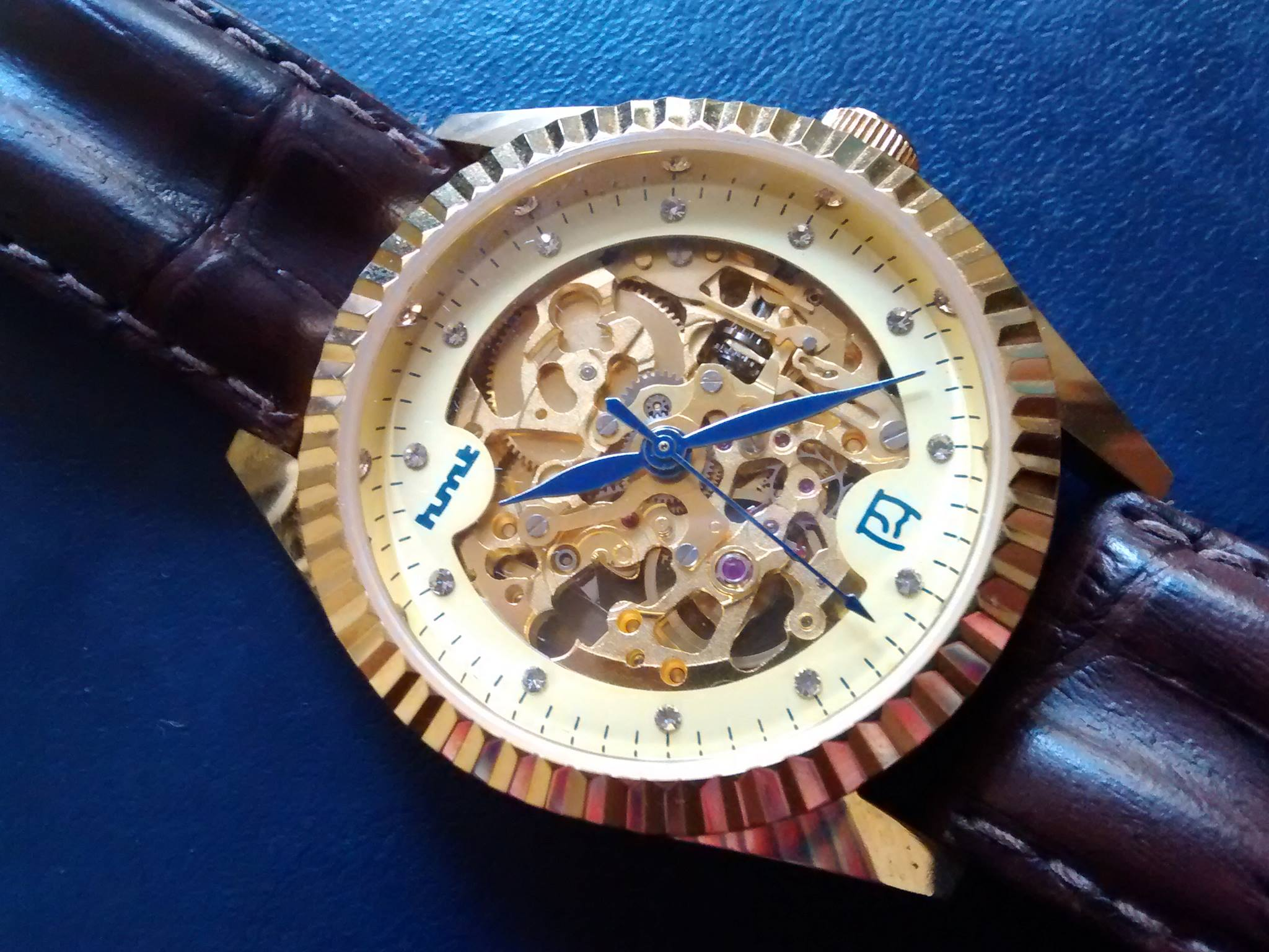 HMT watches manufactured this skeleton watch based on 8N24 movement.